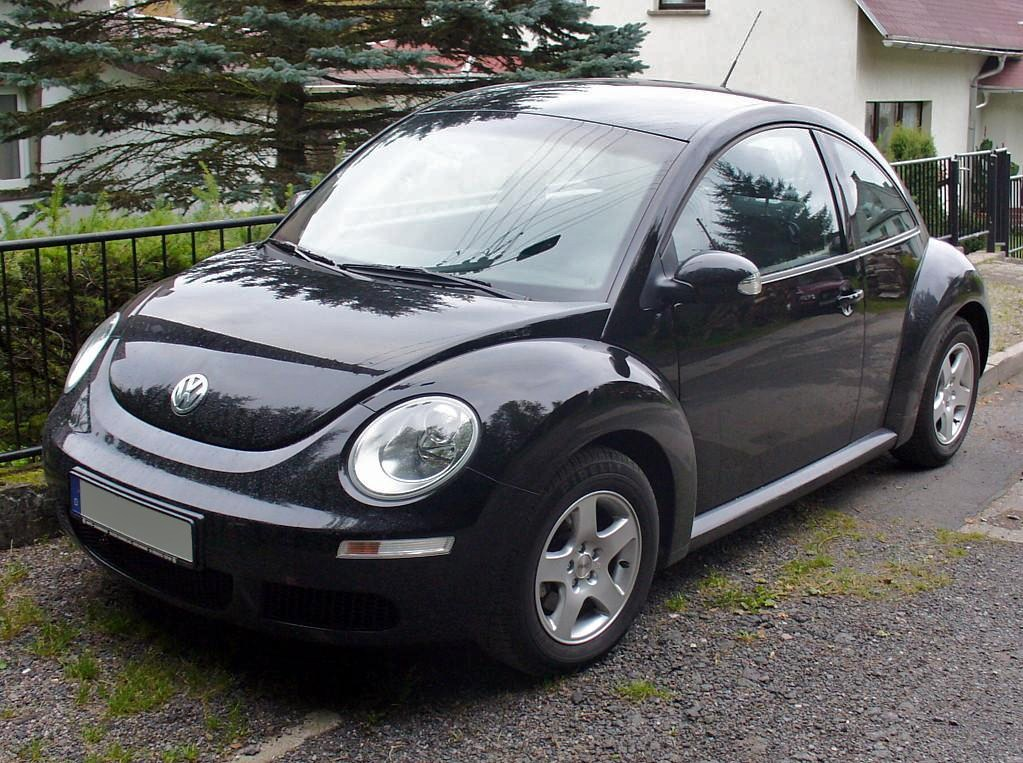 VW New Beetle Facelift